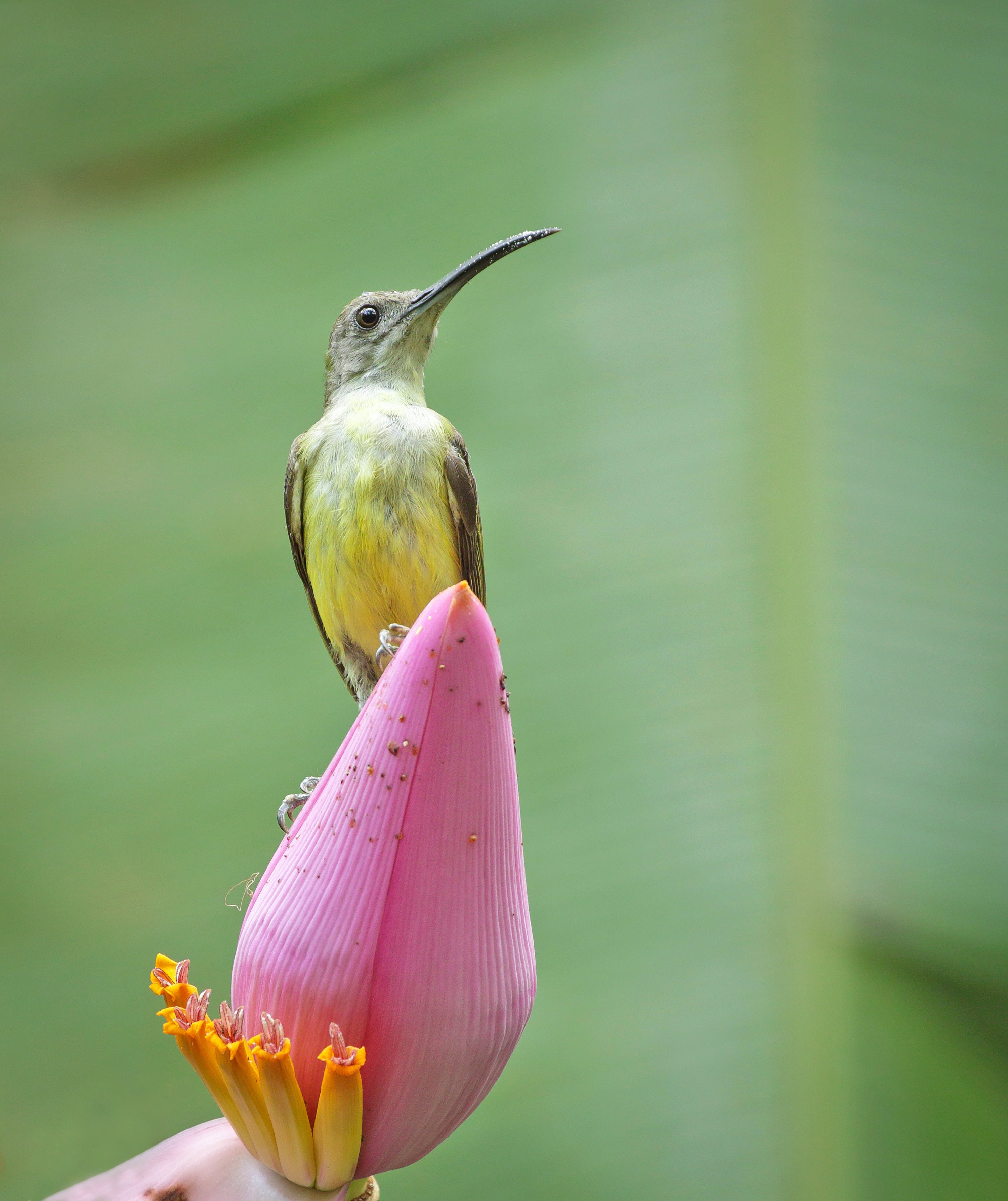 The little spiderhunter is a species of long-billed nectar-feeding bird in the family Nectariniidae found in the moist forests of South and Southeast Asia.